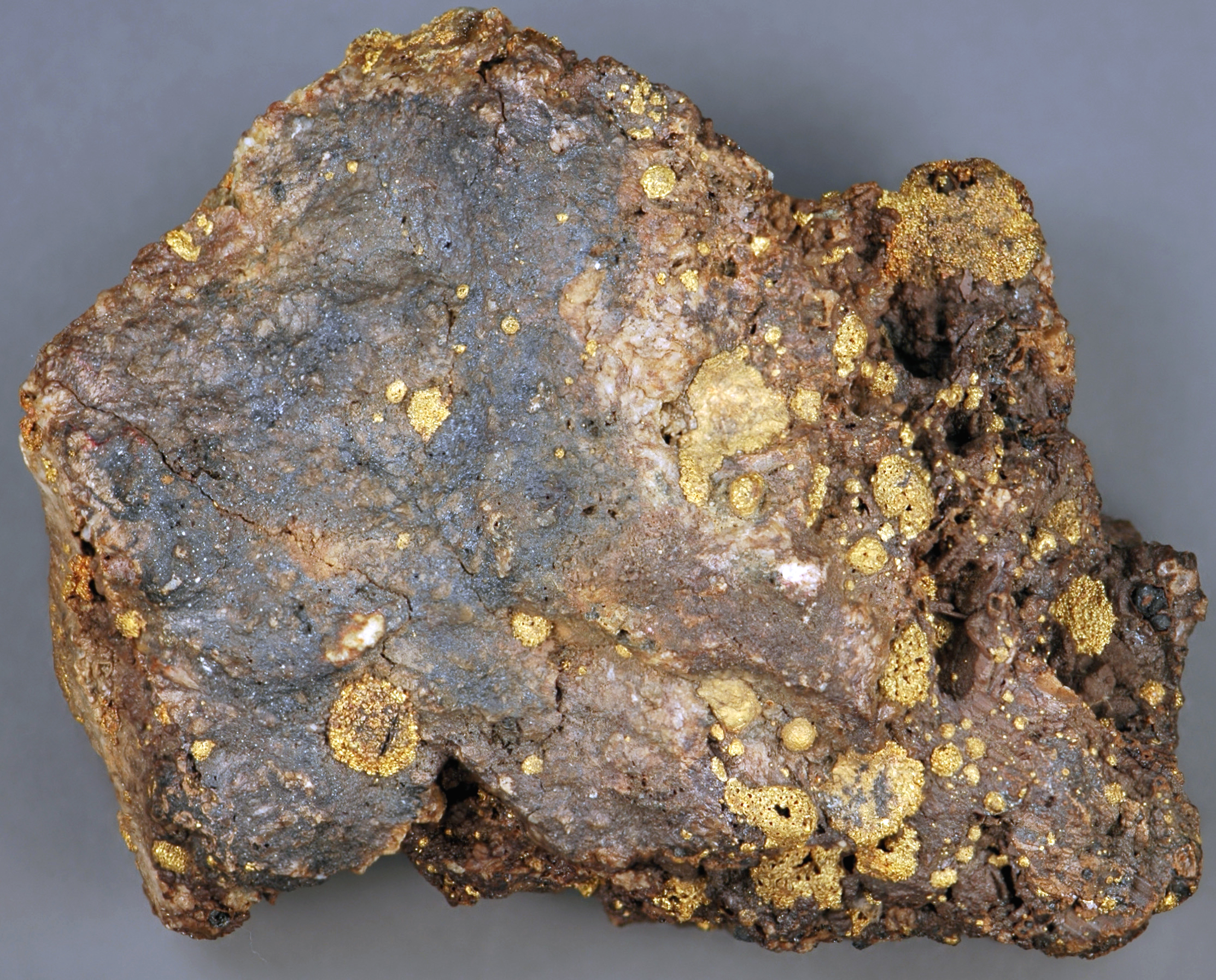 Roasted gold ore (~6 cm across) from Cripple Creek, Colorado, USA. Artificial heating has driven tellurium (Te) away from the original telluride mineral (calaverite), leaving behind vesicular blebs of gold. The Cripple Creek Gold District of central Colorado, USA is famous for its unusual gold and silver mineralization. Precious metal mineralization occurs in the Cripple Creek Diatreme, the root zone of a deeply eroded volcano dating to the Early Oligocene (32 Ma). The dominant lithology at Cripple Creek is the scarce igneous rock phonolite, an alkaline, intermediate, extrusive igneous rock. Cripple Creek gold can be found in its native state (Au), but it typically occurs in the form of gold telluride minerals (for example, sylvanite - (Au,Ag)2Te4, calaverite - AuTe2, petzite - Ag3AuTe2, krennerite - (Au,Ag)Te2, and nagyagite - Pb5Au(Sb,Bi)Te2S6). Silver also occurs in some Cripple Creek minerals, including sylvanite, petzite, krennerite, hessite - Ag2Te, tennantite - (Cu,Ag,Fe,Zn)12As4S13, acanthite - Ag2S, and tetrahedrite - (Cu,Fe,Ag,Zn)12Sb4S13. The gold telluride minerals common in the Cripple Creek Diatreme lack the wonderful, deep rich yellow color of native gold. Some Cripple Creek rock samples have been artificially “roasted” to drive off the tellurium. With heat, the Te readily volatilizes, leaving behind relatively pure gold. The gold patches on the rock below are surficial blisters and crusts of gold having a fine-scale vesicular texture (lots of tiny holes, like a pumice or scoria).